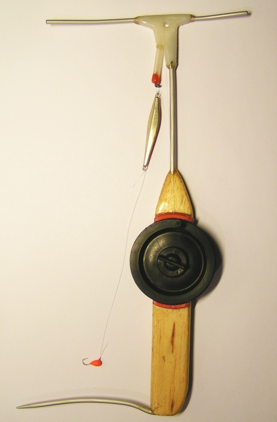 An ice fishing rod for competetive ice fishing, a vertical jig rigged with a mormuska attached